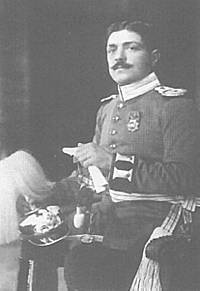 Jafar al-Askari (1887–1936) in the officers uniform of 1st Baden Life Grenadier Regiment, c. 1912.